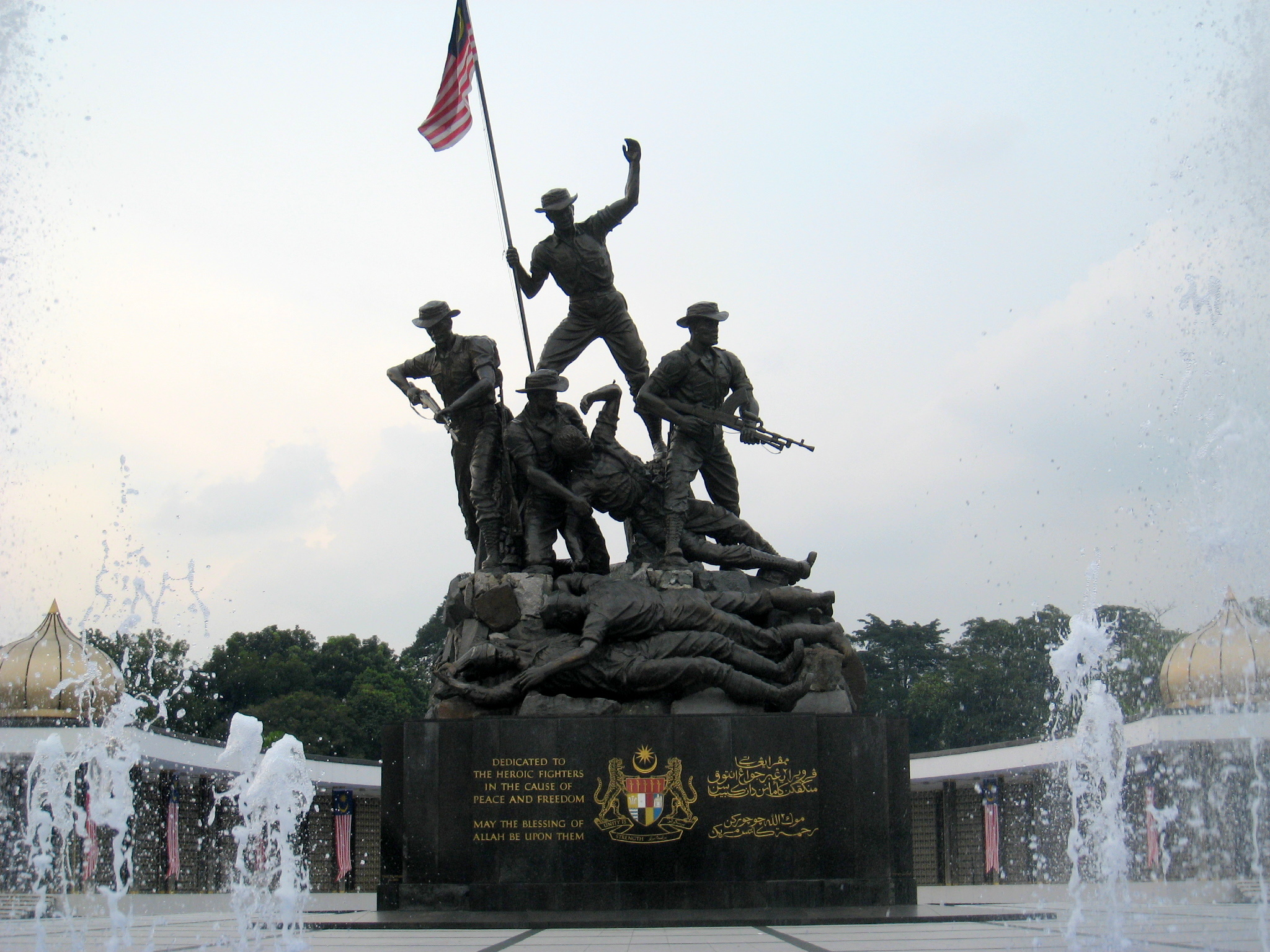 Tugu Negara, the Malaysian National Monument